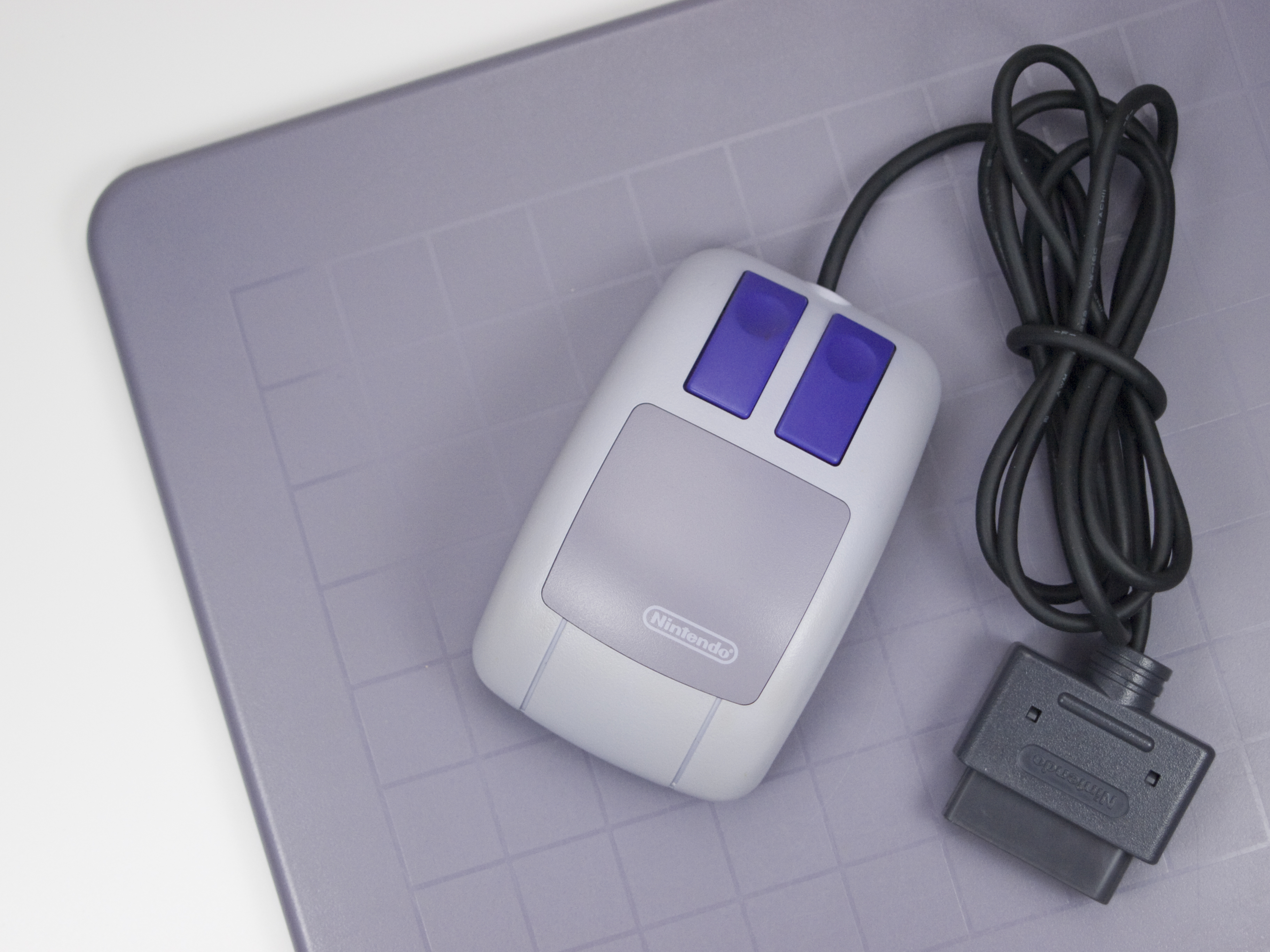 Super NES Mouse, peripheral for the Super Nintendo Entertainment System